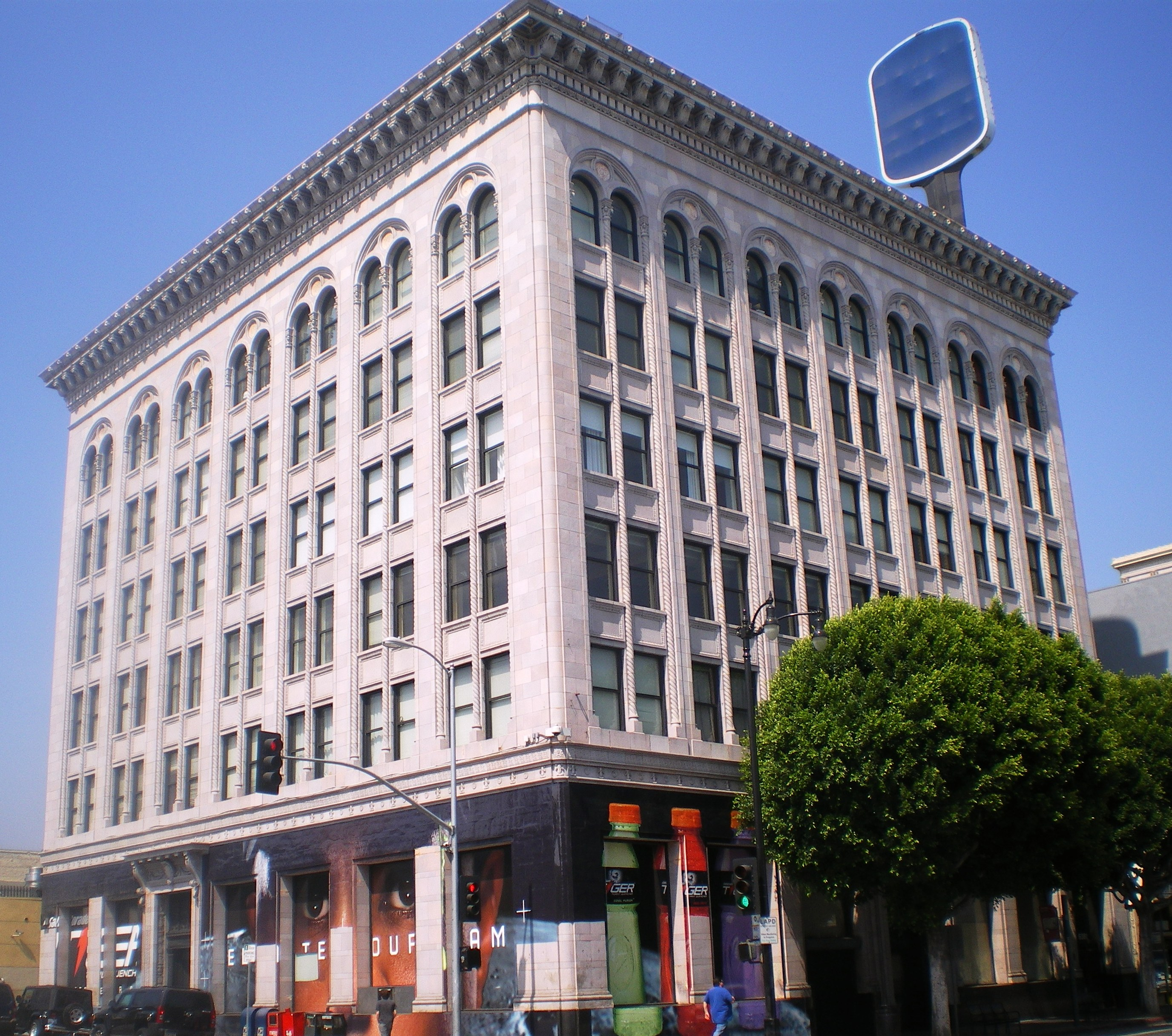 Security Trust and Savings — at 6381-85 Hollywood Blvd., Hollywood, California. On the National Register of Historic Places in Los Angeles.